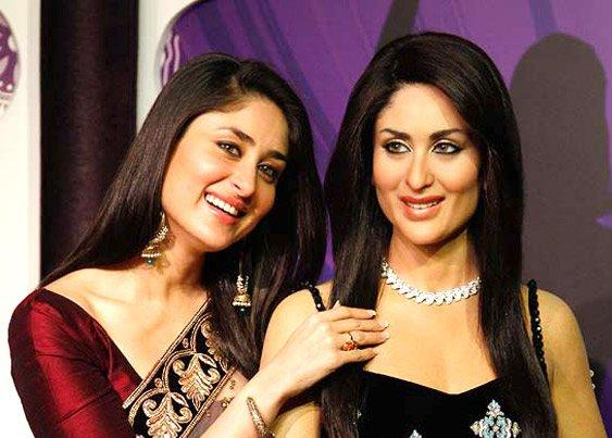 Indian actress Kareena Kapoor unveiling her new wax statue at Madame Tussauds wax museum.